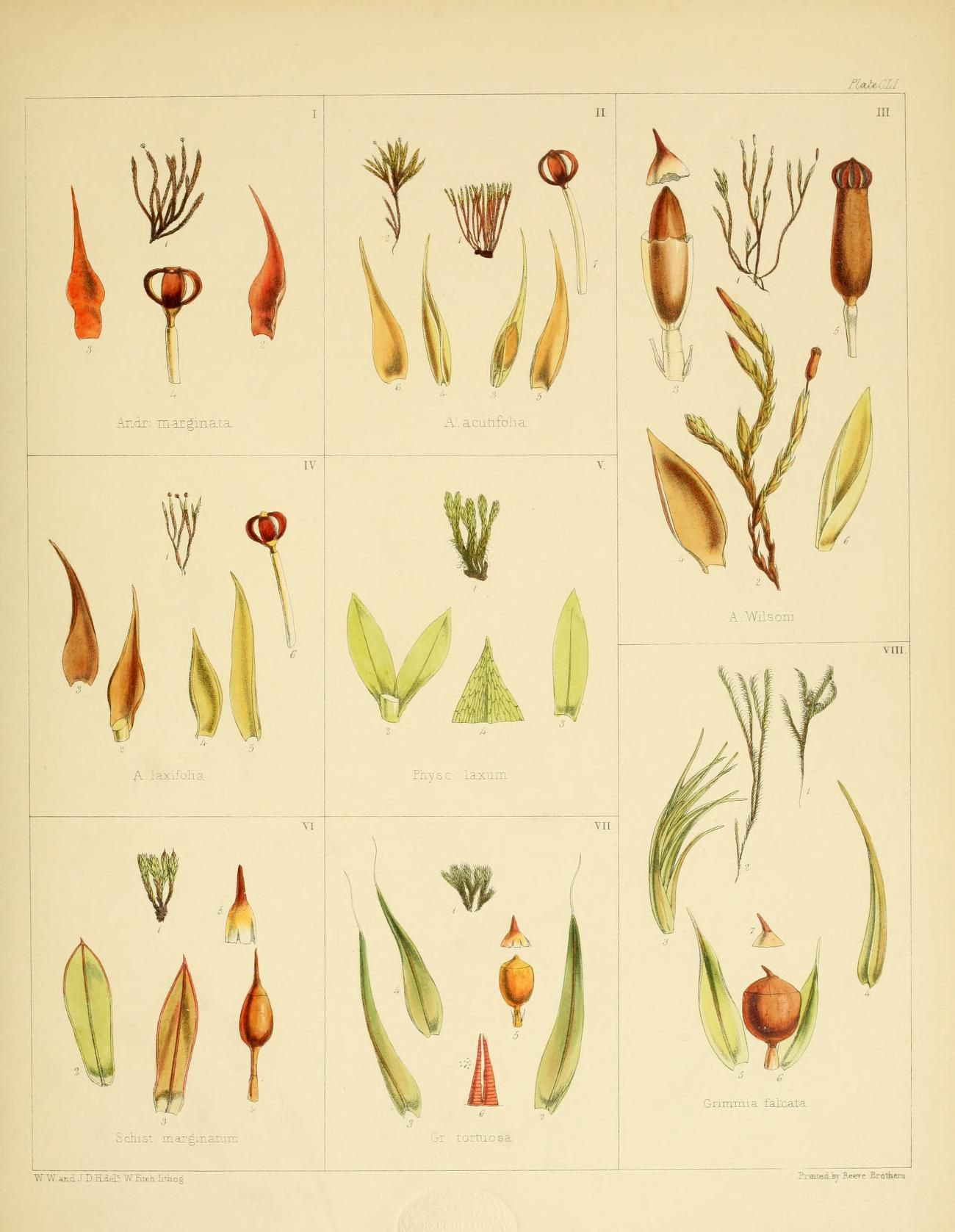 jpg of Plate CLI of Hooker's Flora Antarctica. Made of up of eight smaller images of various images of Musci. Fig I: Andreaea marginata; Fig II: A. acutifolia; Fig III: A. Wilsonii; Fig IV: A. laxifolia; Fig V: Gymnostomum laxum ; Fig VI: Schistidium marginatum; Fig VII: Grimmia tortuosa; Fig VIII: Grimmia falcata